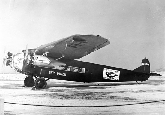 Universal Air Lines Fokker F.10 NC5614